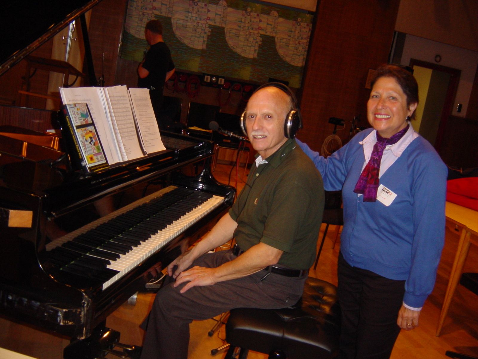 Allen Forte at the piano with his wife Madeleine in Vienna, Austria in summer 2002. Taken by Ben Crawford.